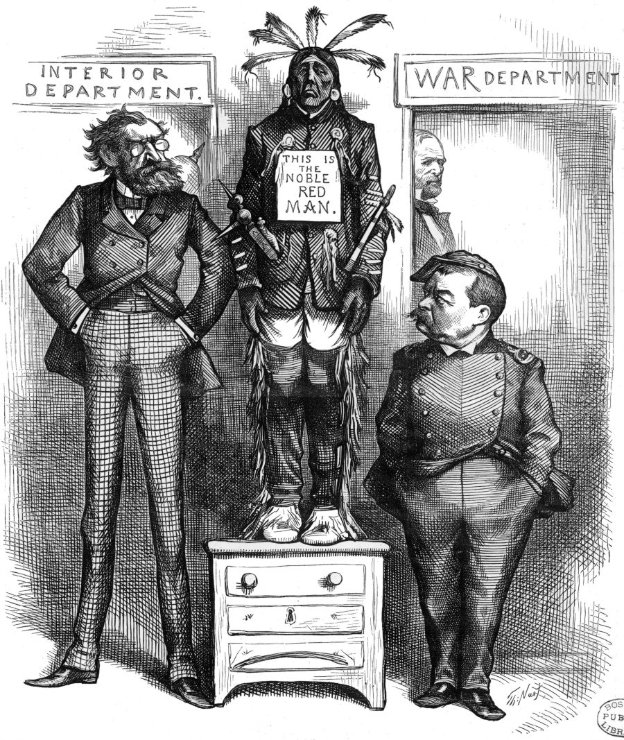 An unhappy-looking Native American, with a sign hanging around his neck saying “THIS IS THE NOBLE RED MAN.” stands on a bureau with an unhappy expression on his face. On either side of him are doors. The left door is labeled “INTERIOR DEPARTMENT” and in front of it stands U.S. Secretary of the Interior Carl Schurz, hands in pocket, with a serious expression on his face. On the right is a door labeled ”WAR DEPARTMENT“ with an equally serious looking General Philip Sheridan standing in front of it and in back of it General William Tecumseh Sherman peers out from the left. Schurz and Sheridan eye each other resolutely.